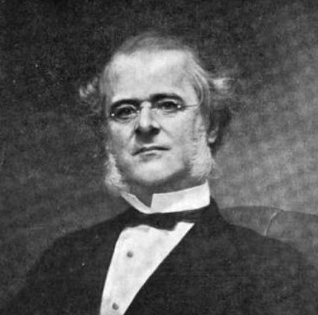 Charles R. Ingersoll (Connecticut Governor)